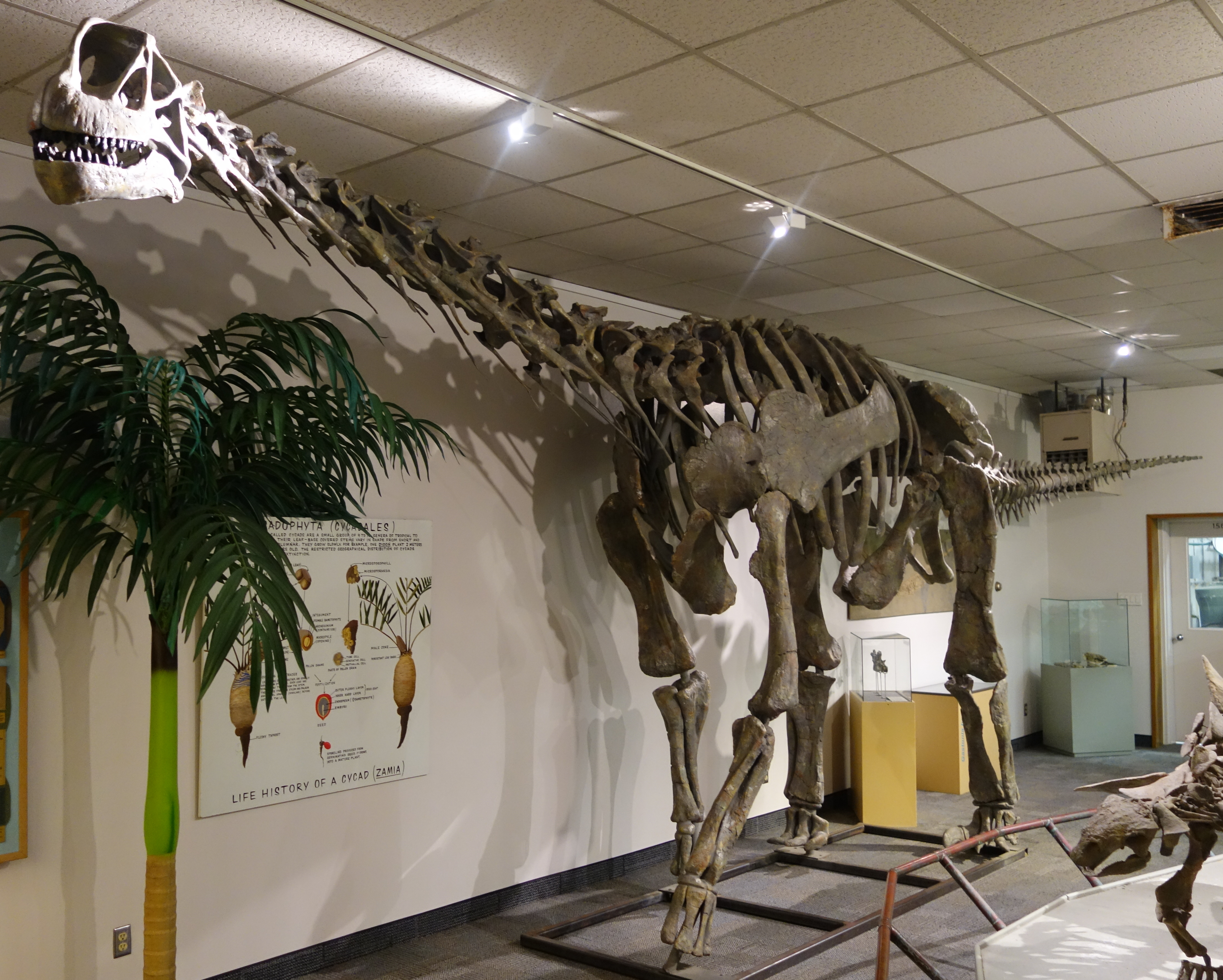 Moabosaurus skeletal mount, on display at the BYU Museum of Paleontology.